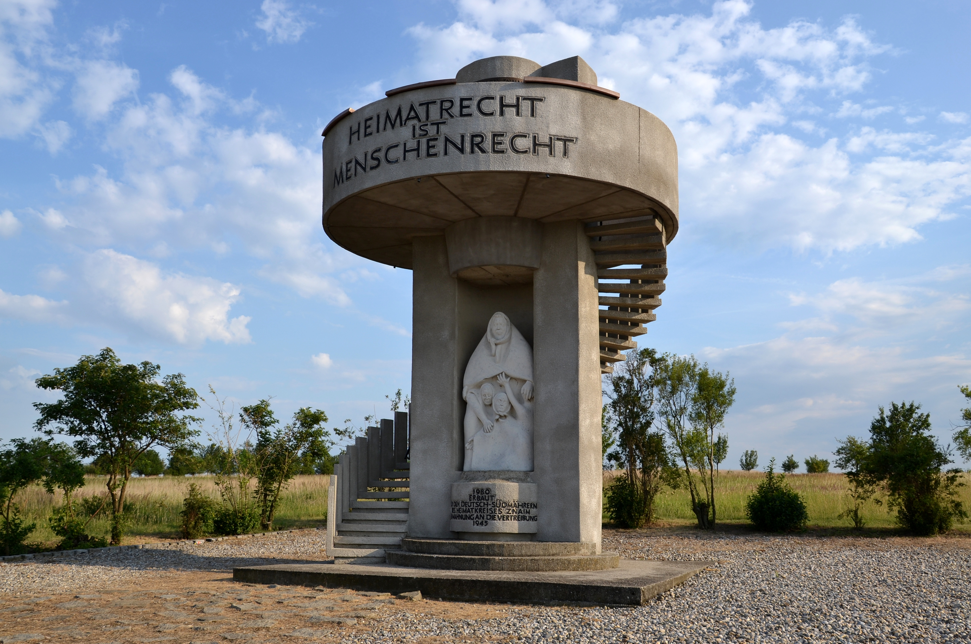 Südmähren Warte (South Moravia Tower), Austria